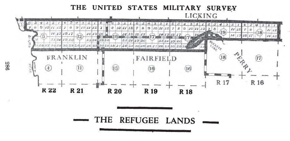 tract of land given to Canadian refugees after the revolutionary war, in Ohio called the Refugee Tracts